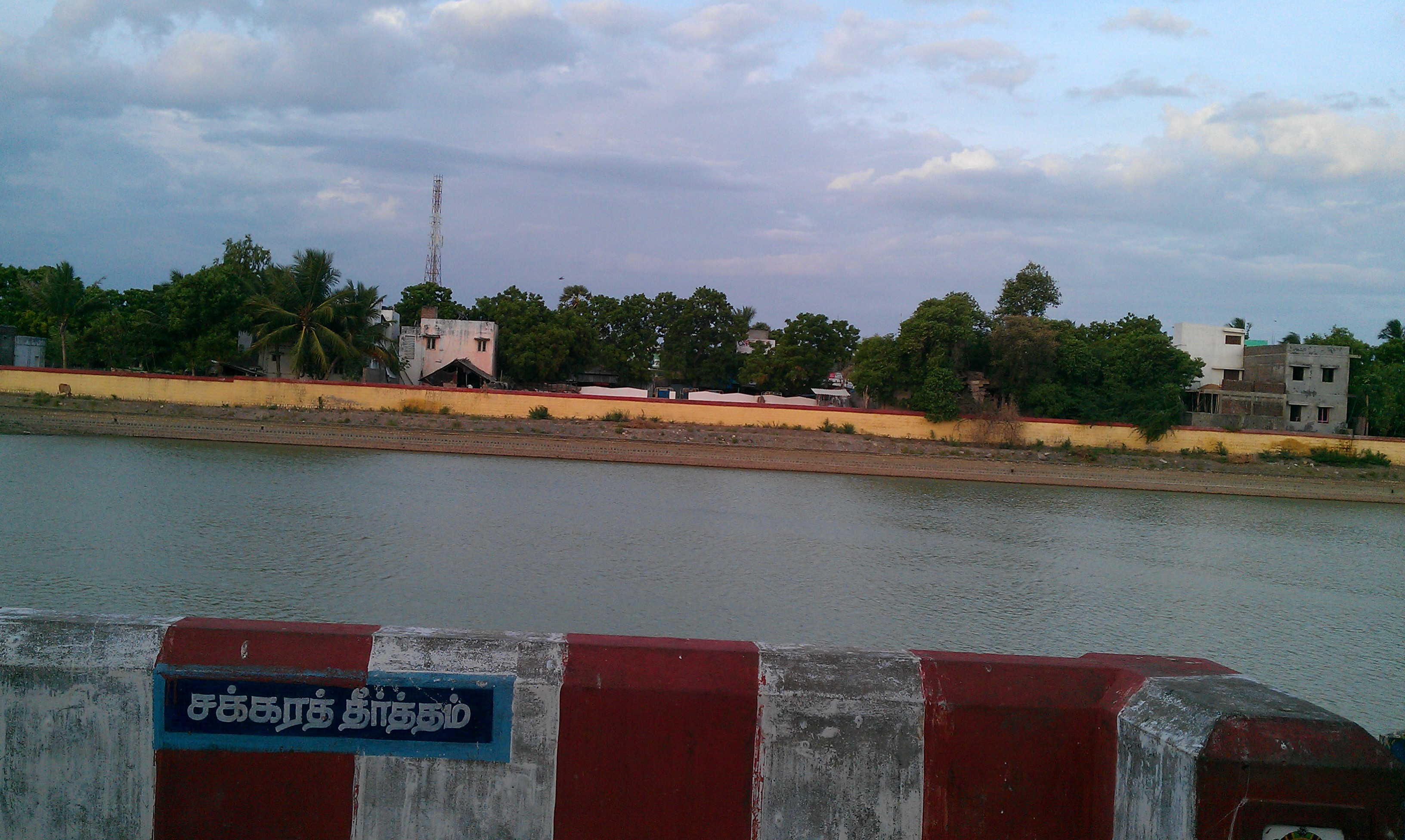 Tirupullani